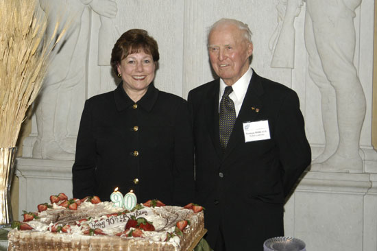 Norman Borlaug at 90, March 29, 2004.